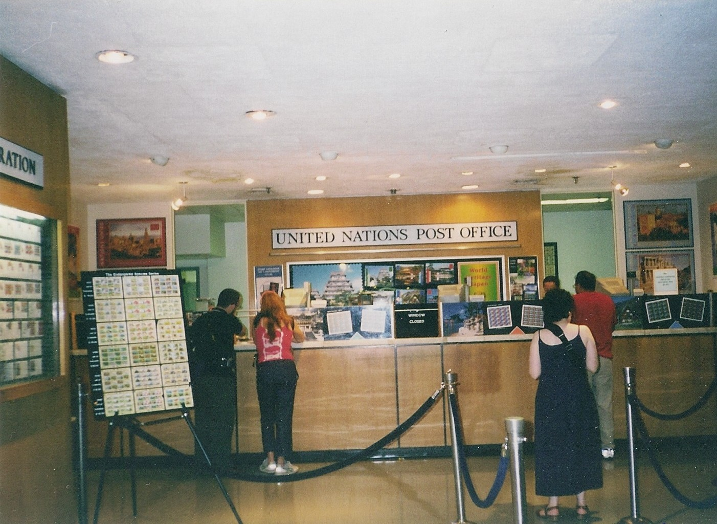 The United Nations Post Office at the United Nations Headquarters in New York City, New York (United States).